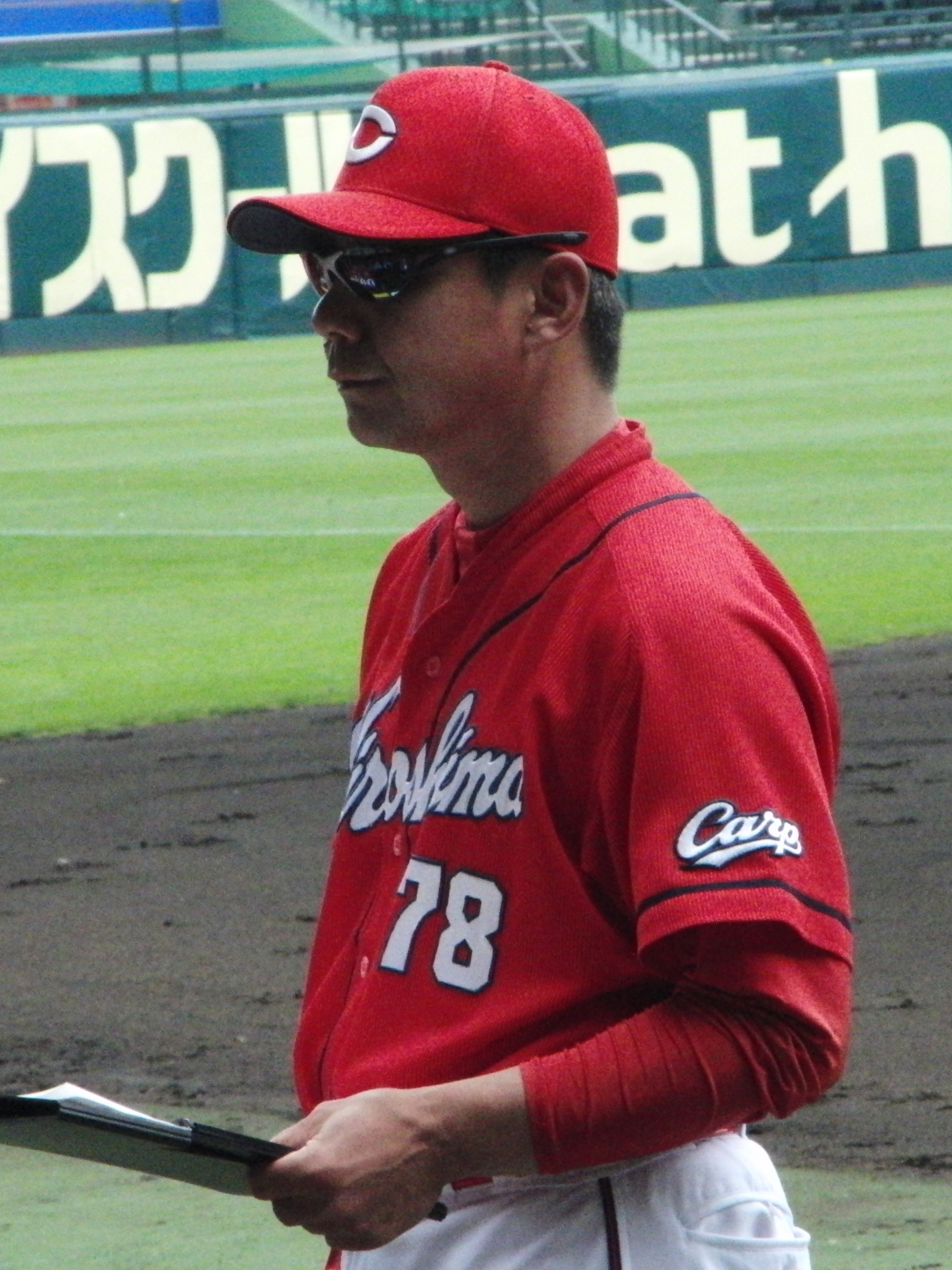 Hidehiro Kumazawa, coach of the Hiroshima Toyo Carp, at Hanshin Koshien Stadium.